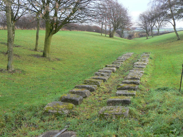 Brusselton Incline east Because the line was abandoned in early days, many original features remained more or less undisturbed, like these stone sleepers.